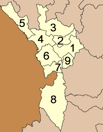 Map of the province Tak with the districts (Amphoe) numbered. Mueang Tak Ban Tak Sam Ngao Mae Ramat Tha Song Yang Mae Sot Phop Phra Umphang Wang Chao (sub-district)